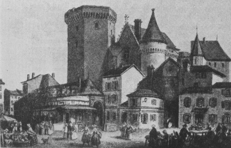 castel Lusignan Valois in Angoulême, now city hall